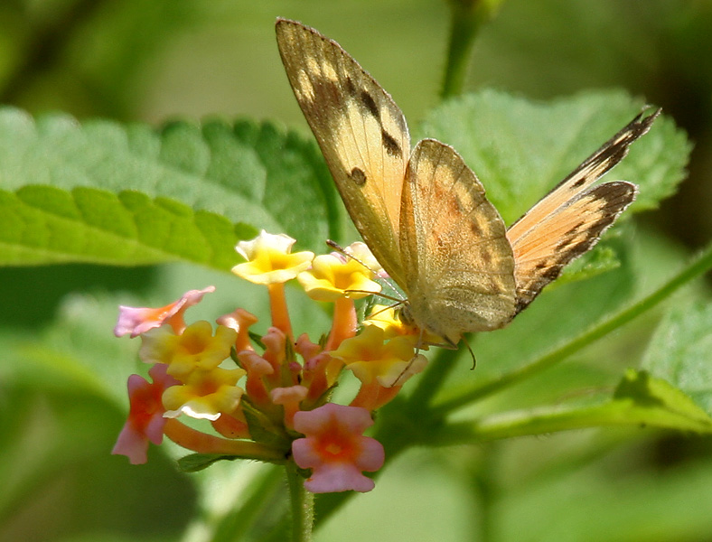 Small Salmon Arab Colotis amata on Lantana in Hyderabad, India.